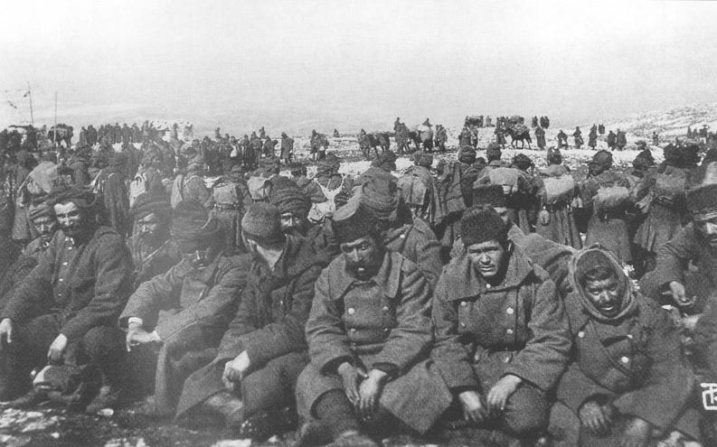 Ottoman prisoners of war in Greek hands. After the battle of Bizani, the Greek Army took 8,600 Ottoman POWs.